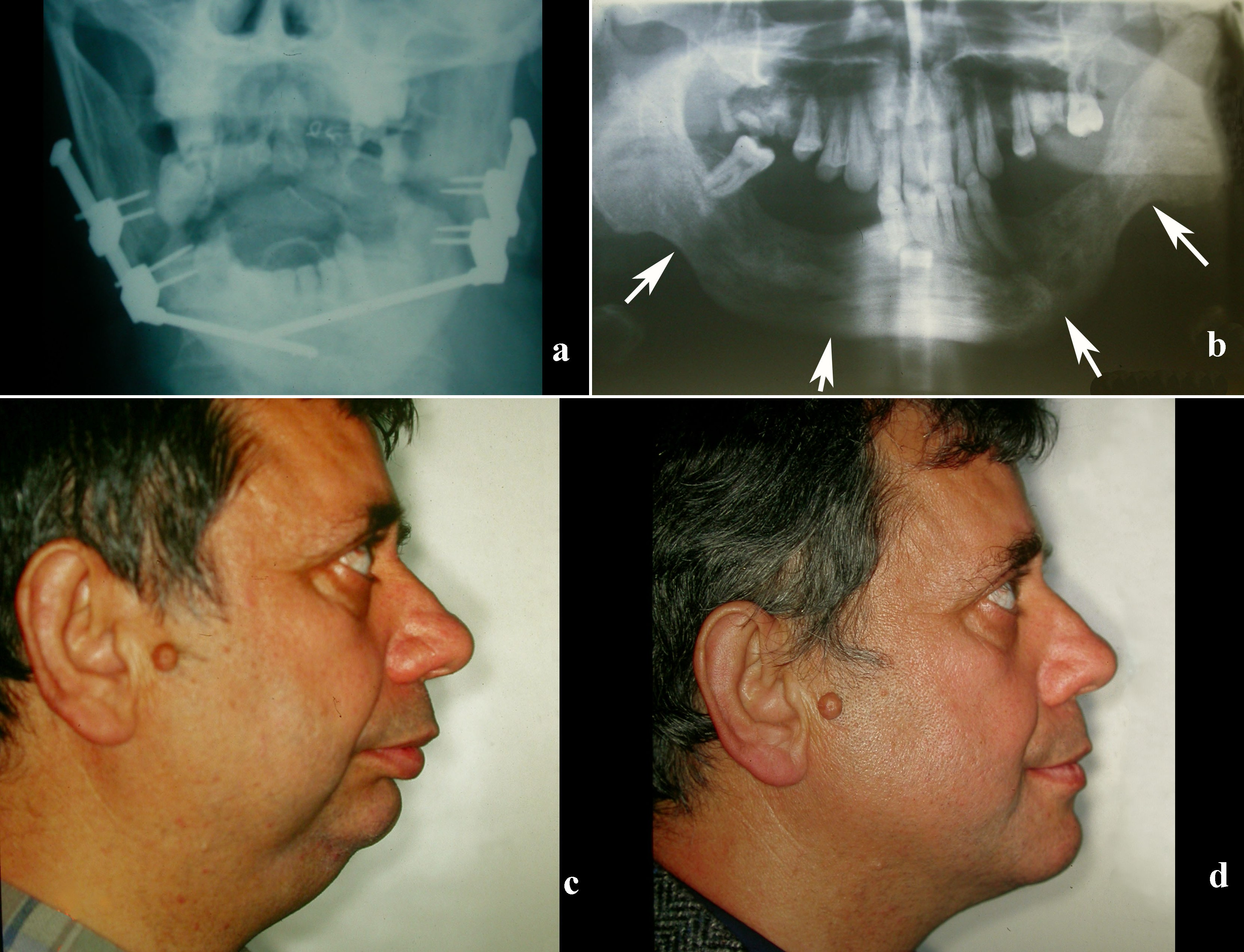 Περίπτωση 2η. Διατατική οστεογένεση σε ενήλικα με επικτήτου αρχής υποπλασία της γνάθου.